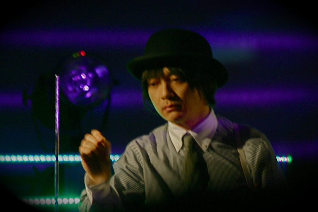 Cornelius: the Cornelius Group - Sensuous Synchronized Show @ Webster hall, NY (January 26th, 2008)